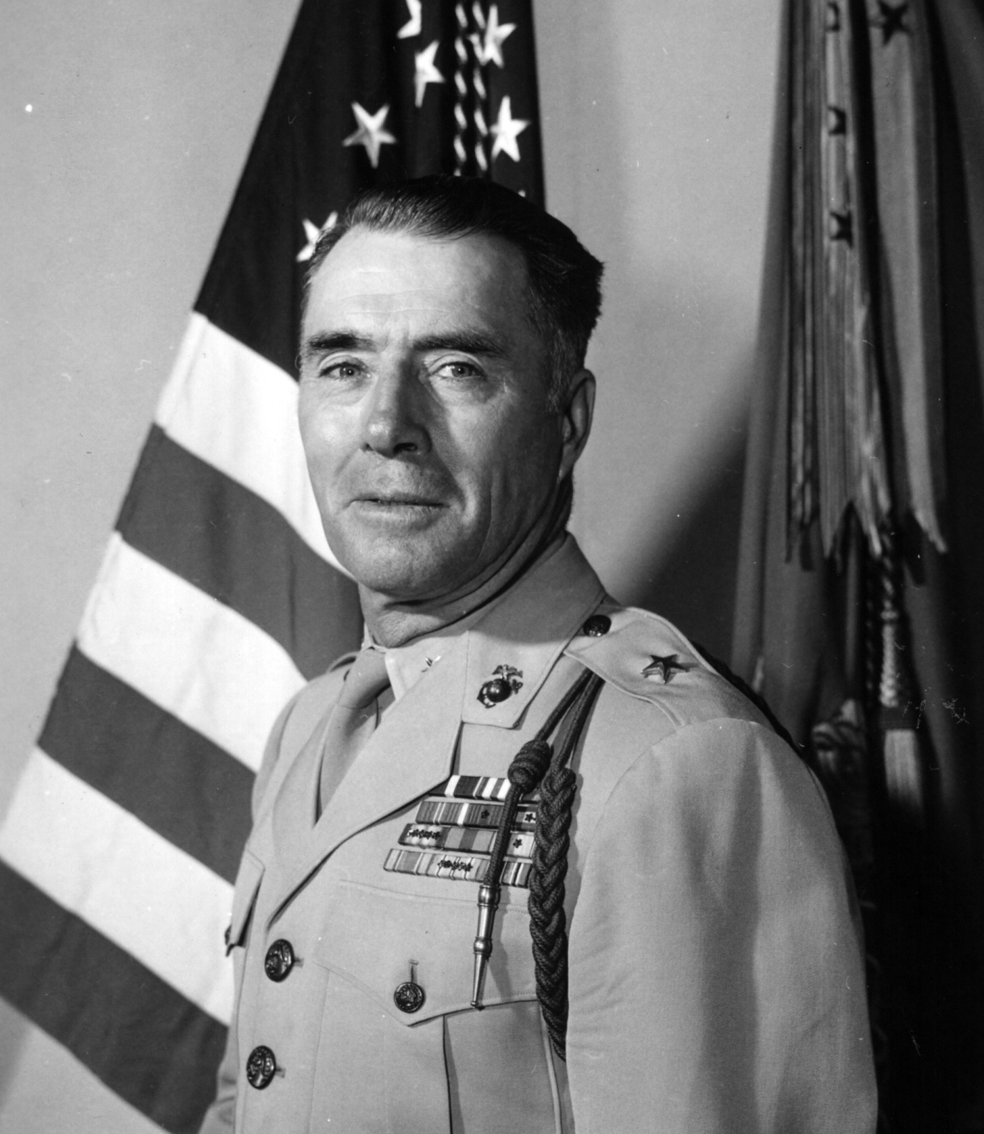 William John Whaling (February 26, 1894 – November 20, 1989) was a highly decorated Major general in the United States Marine Corps and an expert in jungle warfare during the Pacific War. He also competed as a sport shooter in the 1924 Summer Olympics, where he finished in 12th place in the 25 m rapid fire pistol competition. He began his Marine Corps career as an Enlisted Man and received field commission during World War I. Whaling remained in the Marine Corps and commanded battalion at Guadalcanal and regiment at Cape Gloucester and Okinawa, where he earned the Navy Cross for gallantry in action. During the Korean War, he served as Assistant Division Commander, 1st Marine Division and later as Commanding general, Marine Corps Recruit Depot San Diego.